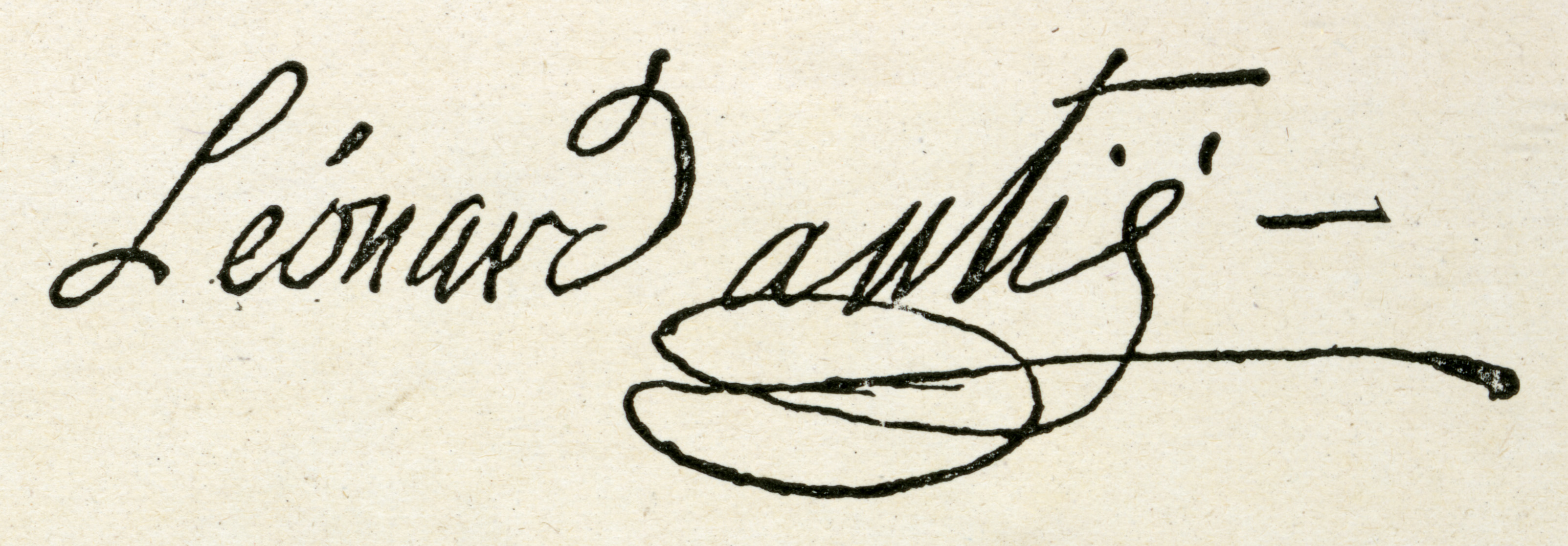 Signature of Léonard Autié, French hairdresser, a favorite of Queen Marie-Antoinette.